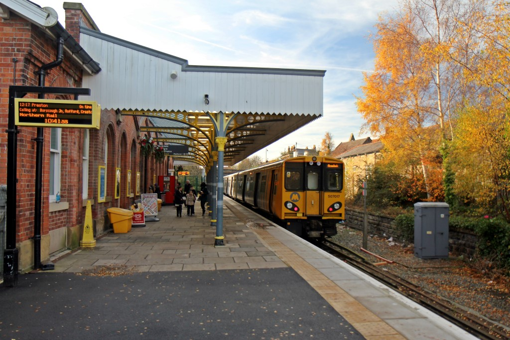 Merseyrail Class 507, 507017, Ormskirk railway station